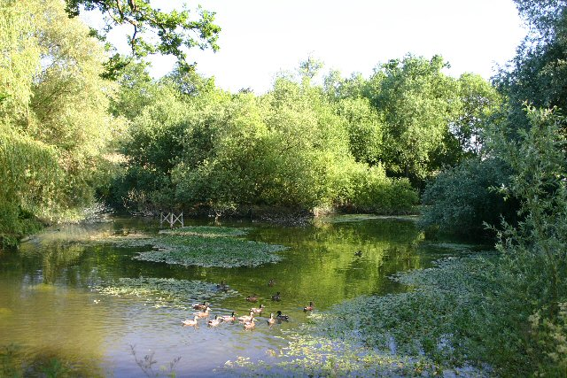 Duckpond at Coldham Hall. The pond lies just south of the driveway to the Hall.